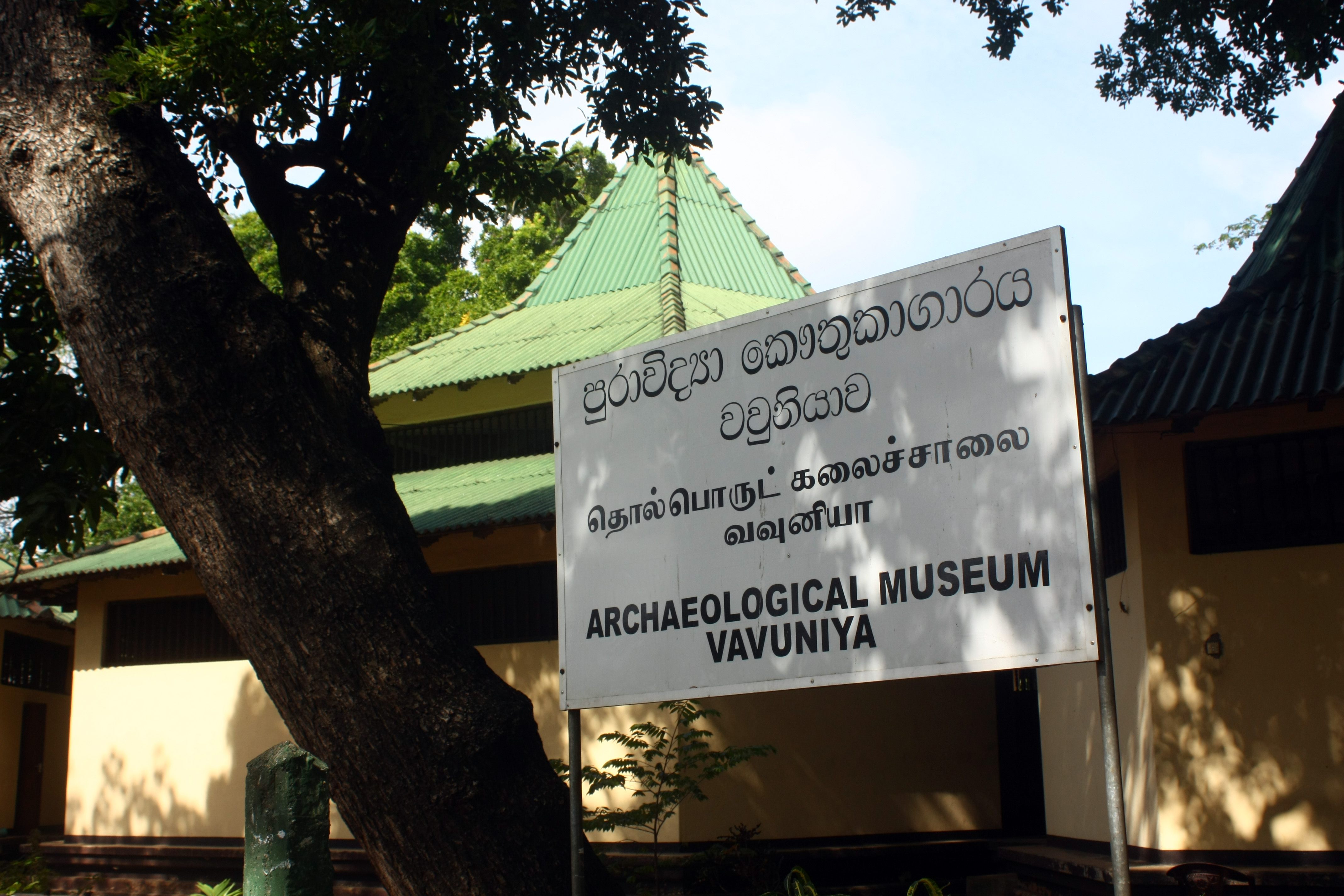 Name board in the archaeological Museum, Vavuniya